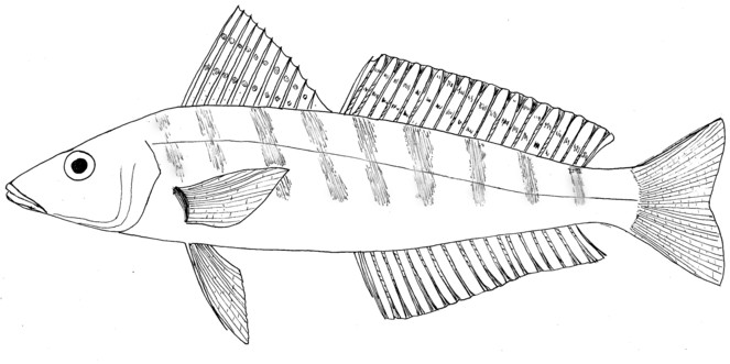 Hand drawn diagram of the Western trumpeter whiting, Sillago burrus based partially on McKay (1992)